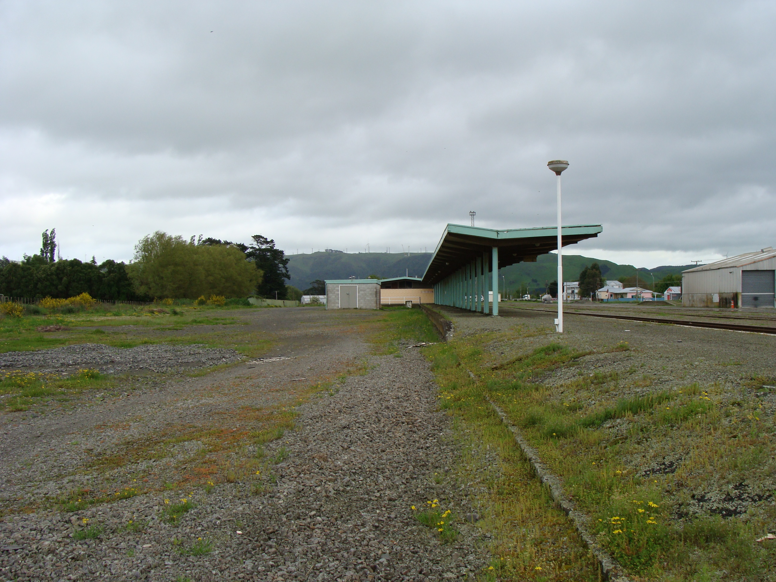 Woodville railway station Wairarapa dock siding and platform, looking west towards the station building.